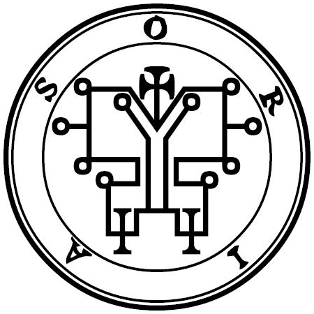 Orias seal, THE BOOK OF THE GOETIA OF SOLOMON THE KING (1904)